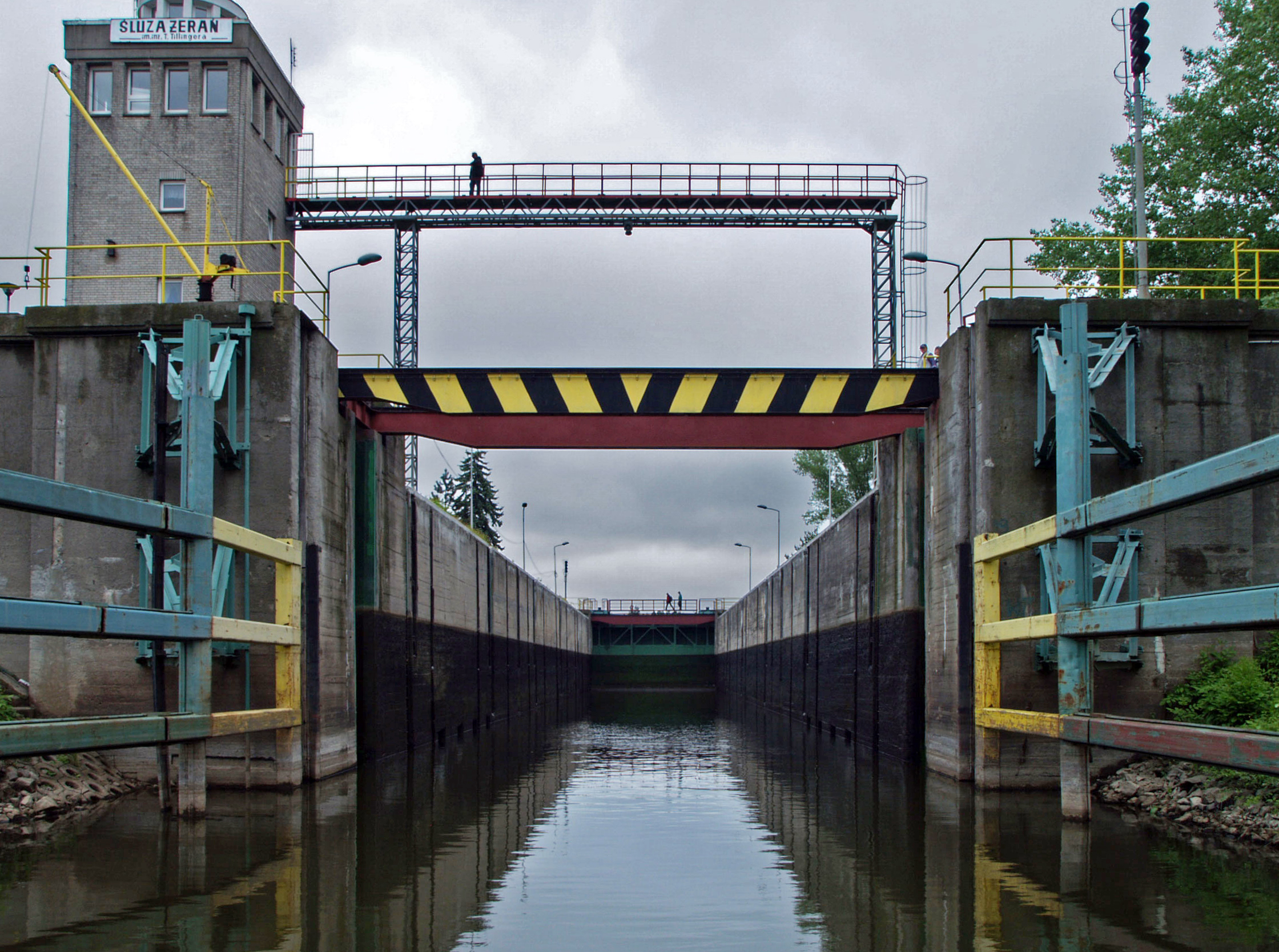 Lock on Kanał Żerański, Poland